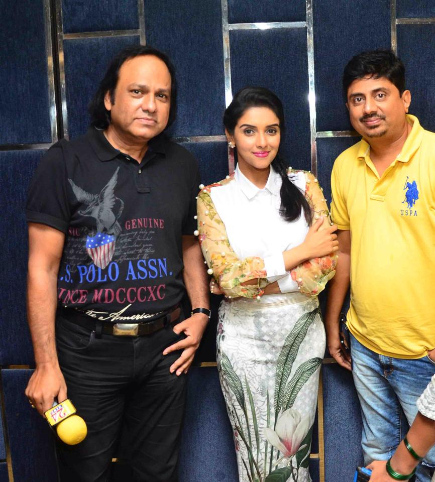 All Is Well is a Bollywood family drama film directed by Umesh Shukla actress Asin promoting in pinkcity Jaipur.